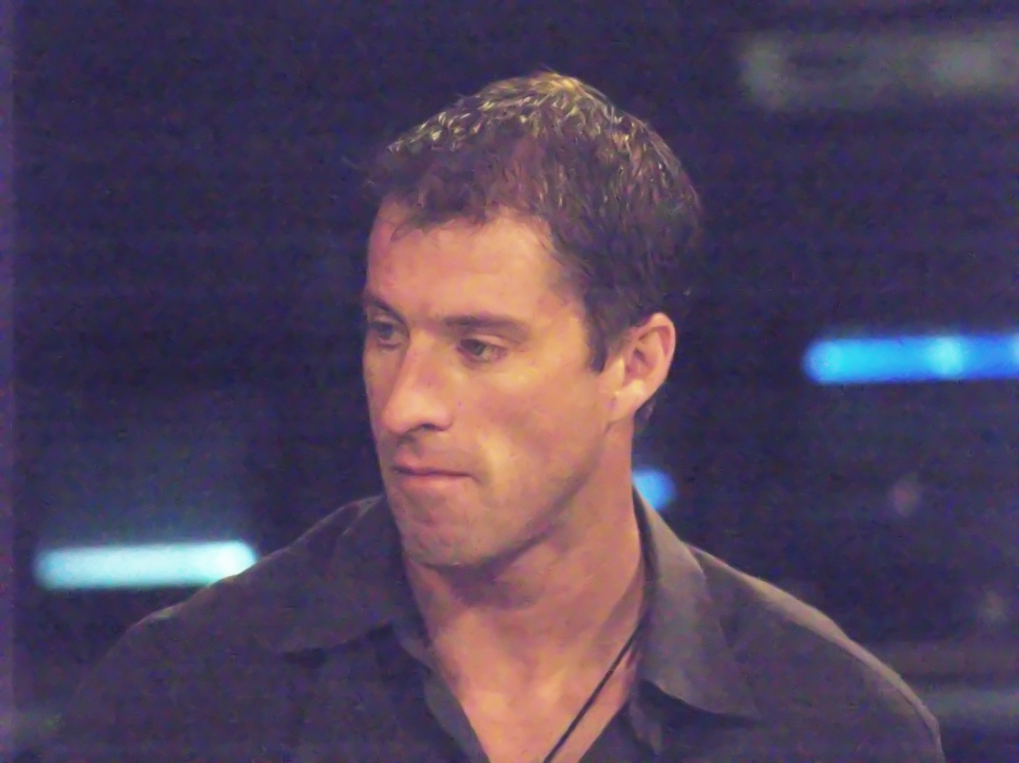 Photo of Billy Ray talking about his movie Breach